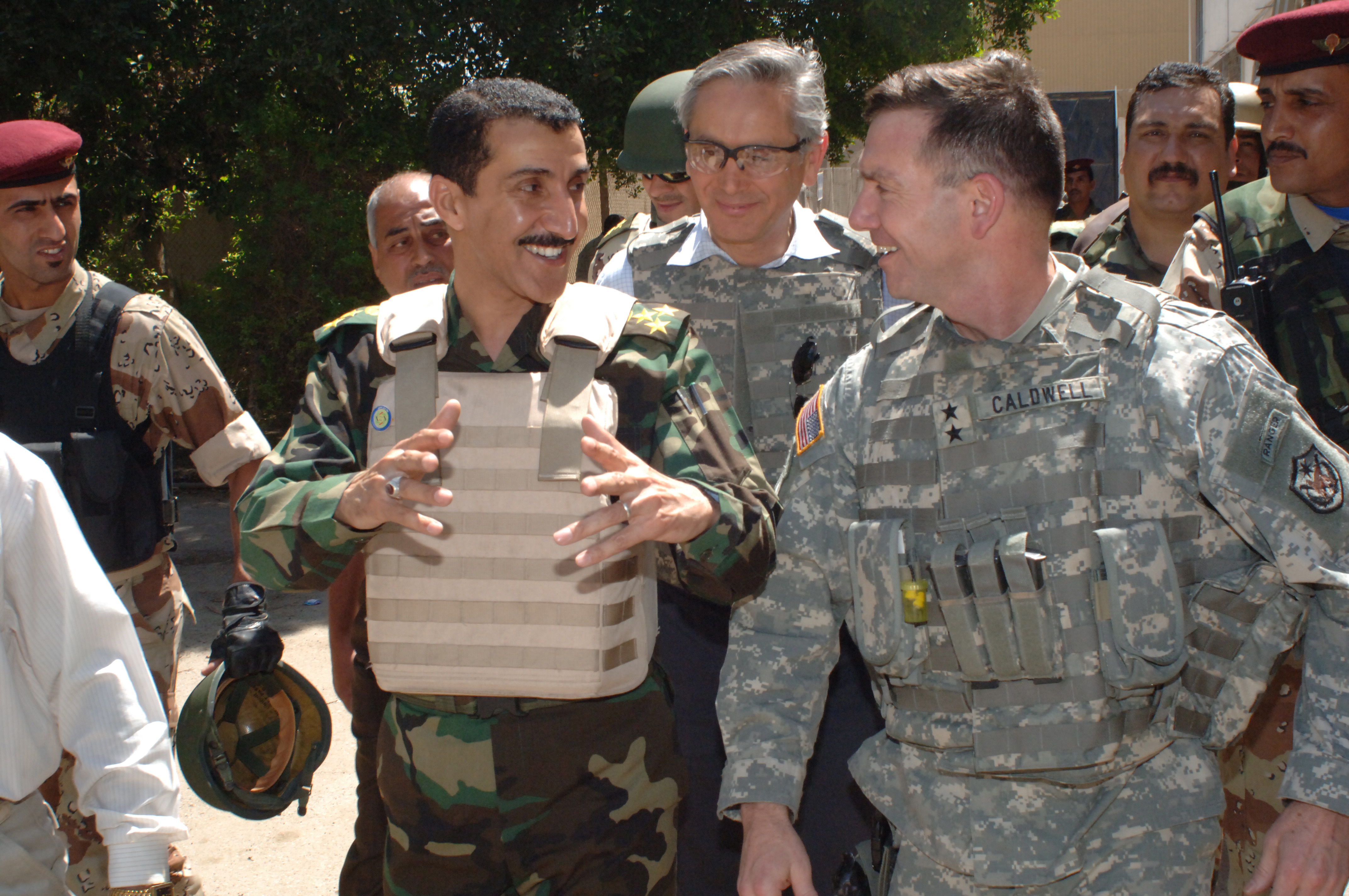 From right, U.S. Army Maj. Gen. William Caldwell, chief spokesman for Multi-National Forces - Iraq, walks to the market place with the Iraqi commander of 1st Brigade, 9th Iraqi Army Division in the Zafaraniyah area of East Baghdad, Iraq, April 5, 2007. C aldwell is visiting the 2nd Battalion, 17th Field Artillery, 2nd Infantry Brigade Combat Team, 2nd Infantry Division area of operations in Zafaraniyah to gain first-hand knowledge of the current security situation and initiatives aimed at increasing secu rity, economic prosperity and governmental involvement.